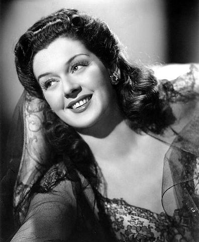 publicity photo